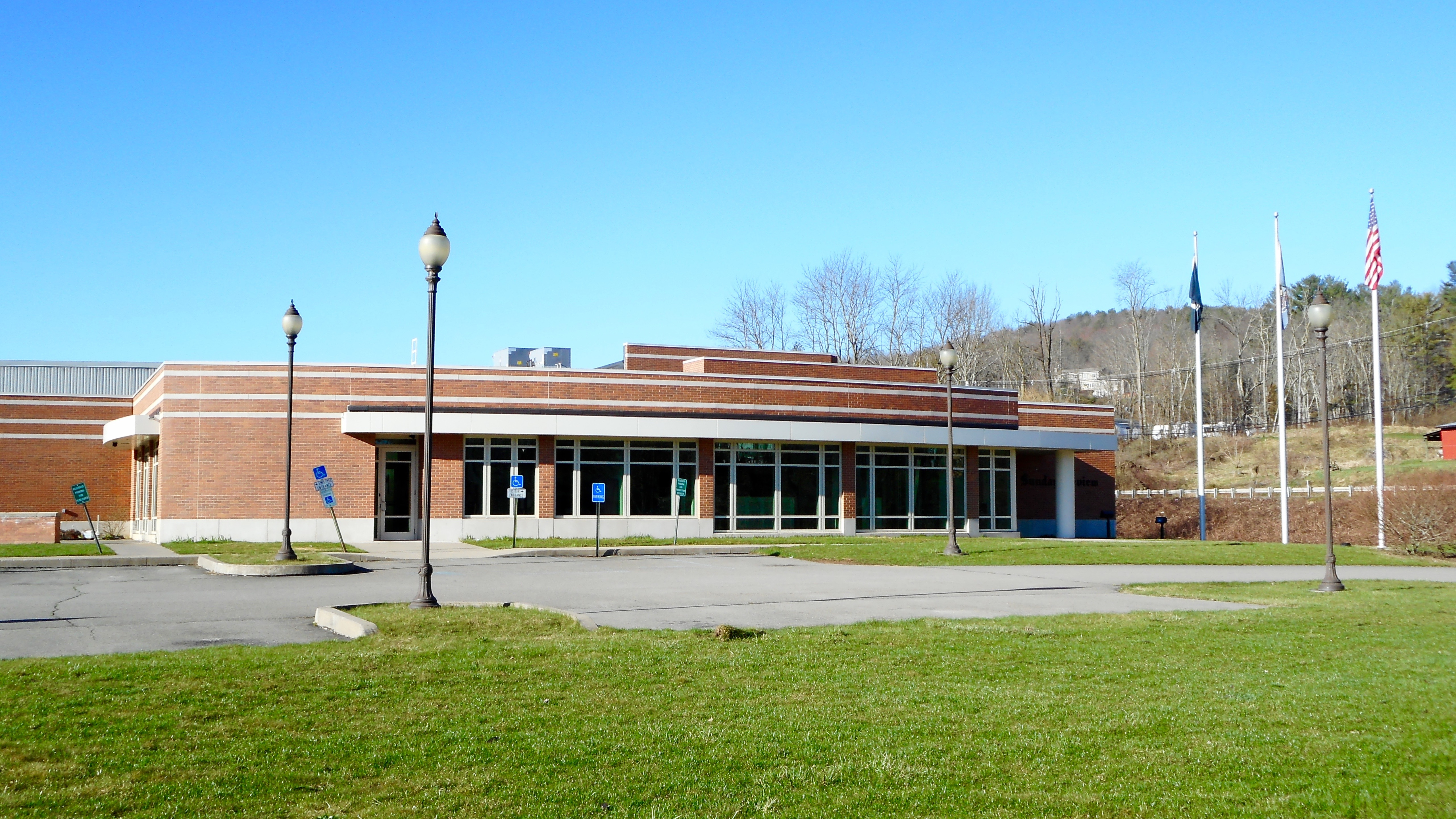 Newspaper printing plant for the Towanda Review in Towanda Township, Bradford County, Pennsylvania